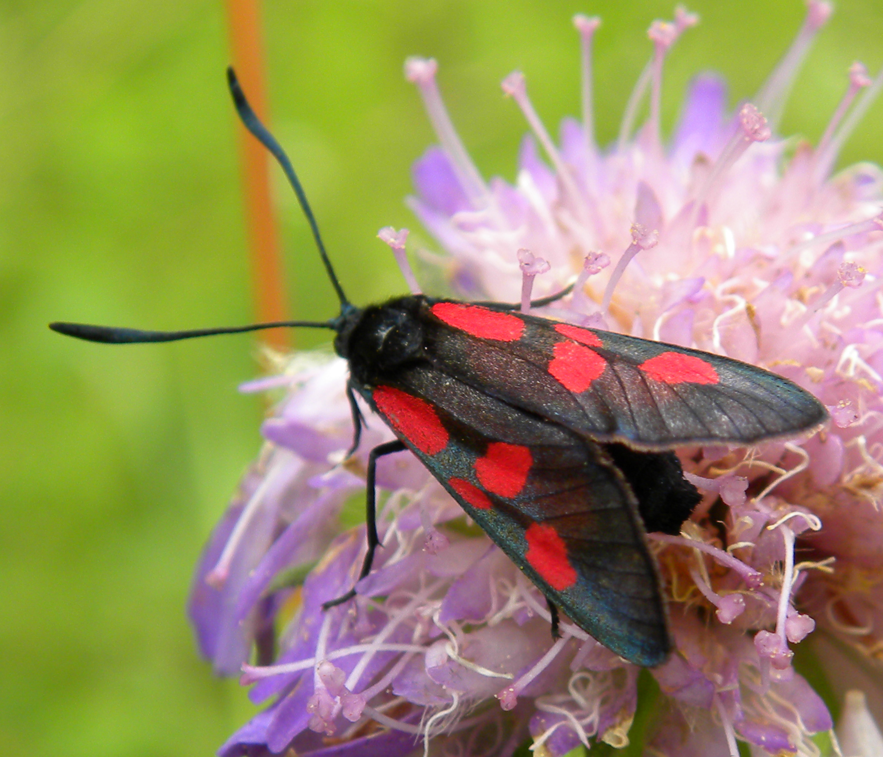 Zygaena sp., Hiiumaa, Estonia.